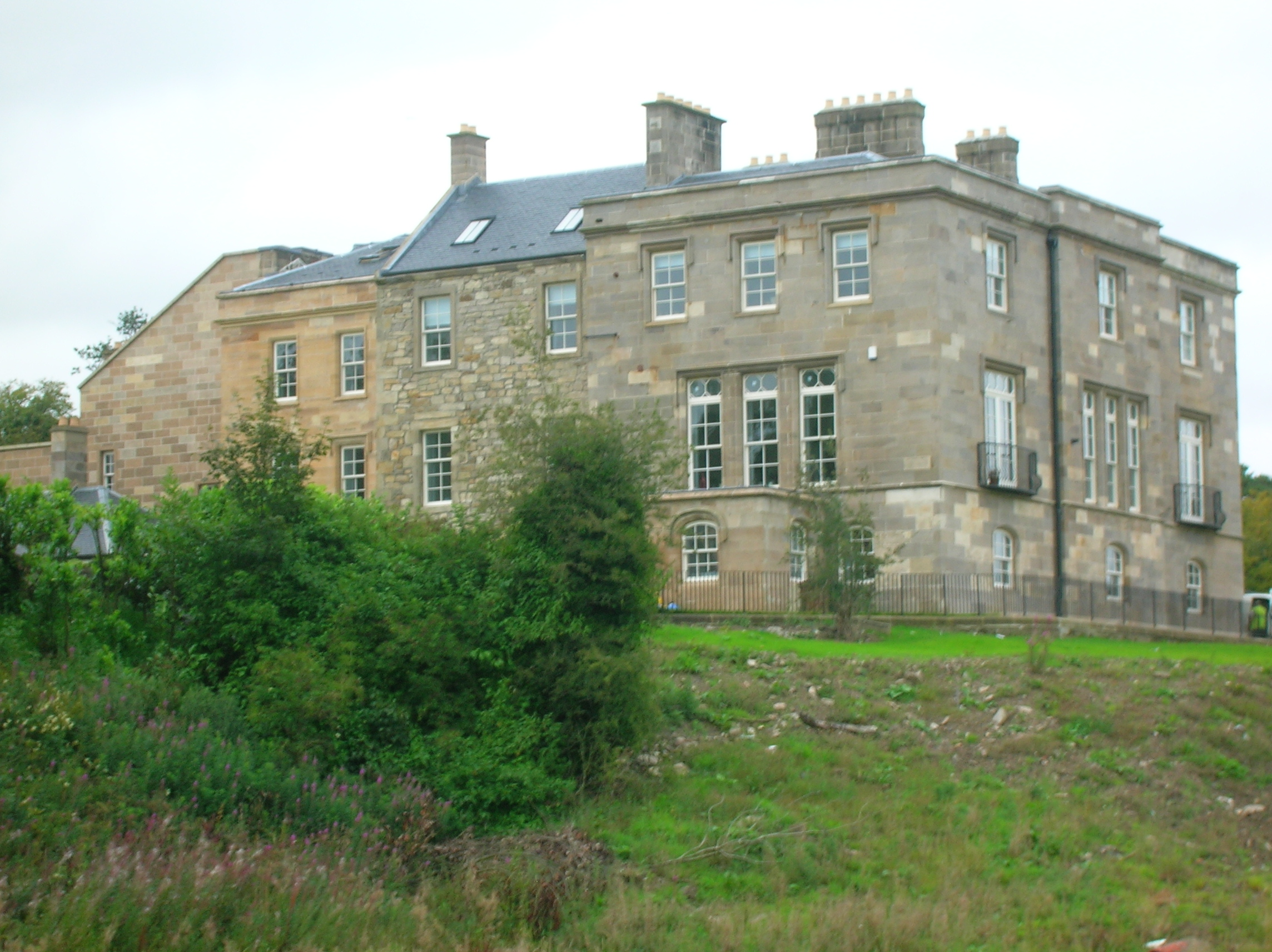 The renovated Lainshaw House, Stewarton, East Ayrshire, Scotland.